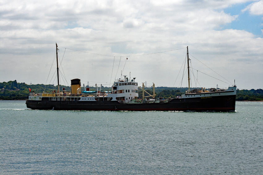 SS Shieldhall steaming up Southampton Water. She is painted in the White Star livery carried by the Titanic to commemorate the centenary of the tragedy. Information about Shieldhall (ship) may be found at IMO 5322752.A ship can change name and flag state through time, but the IMO number remains the same through the hull's entire lifetime. As a result, it can be useful to identify a ship by using the IMO number.